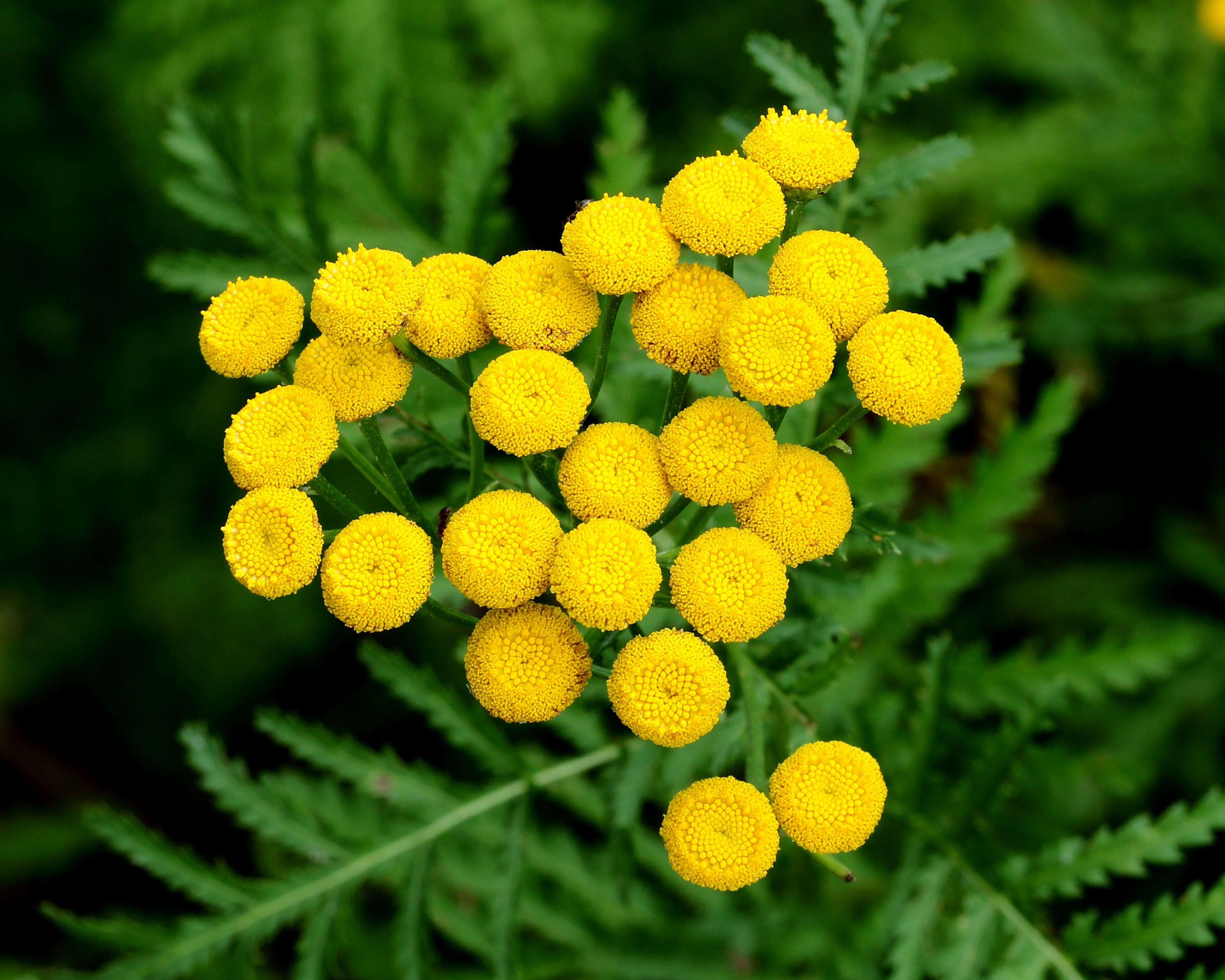 Tanacetum vulgare 'crispum', boerenwormkruid. Location De Kruidhof - a botanical garden with the largest collection of medicinal herbs in Western Europe, and has a rich history of over 80 years..